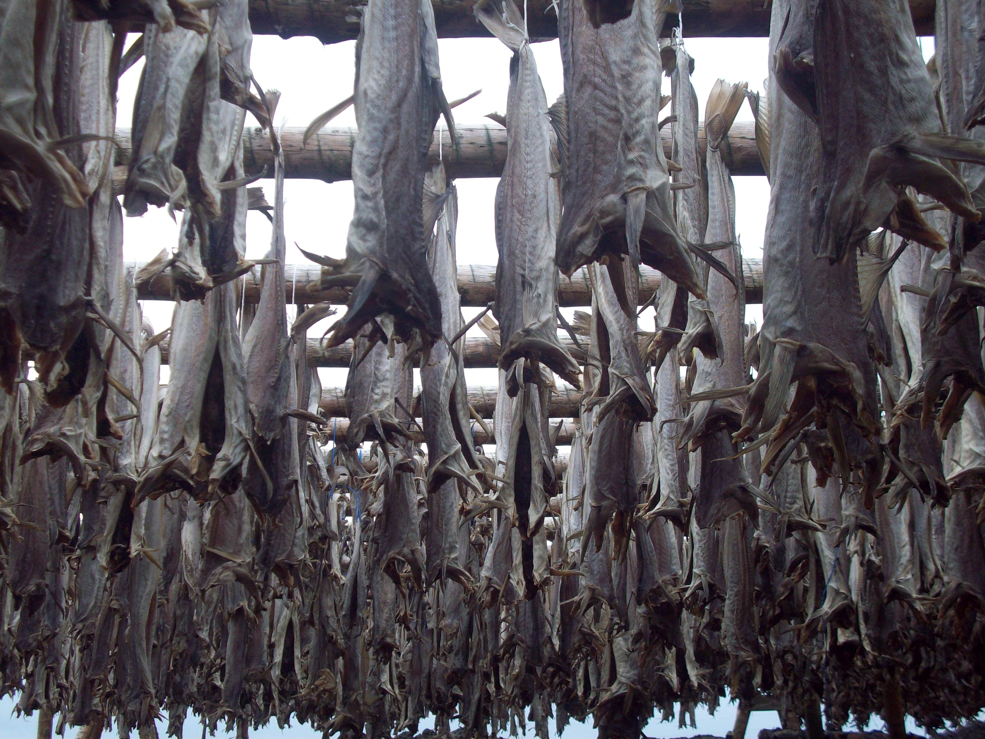 Harðfiskur up for drying in Iceland